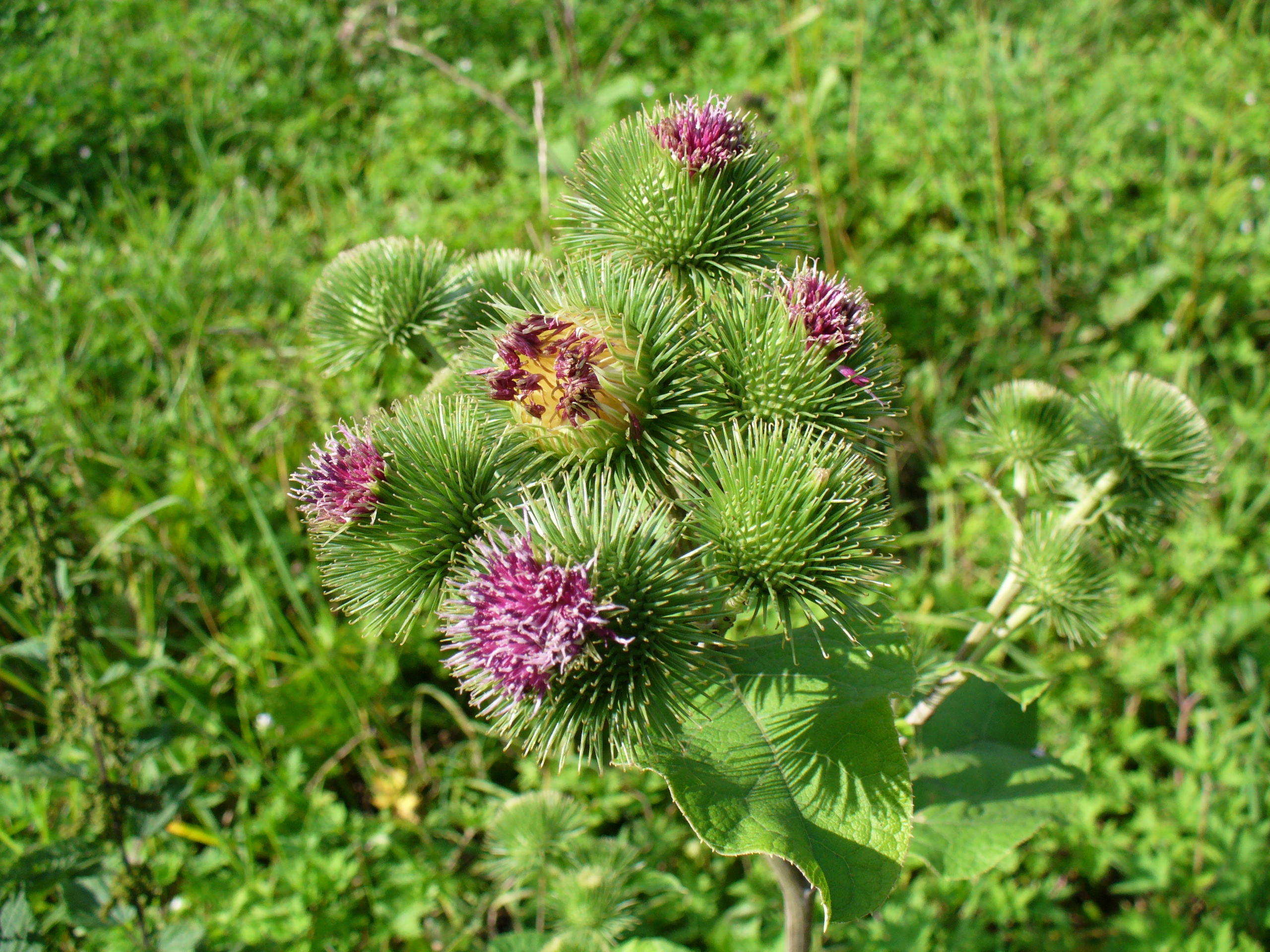 Greater burdock (Arctium lappa)